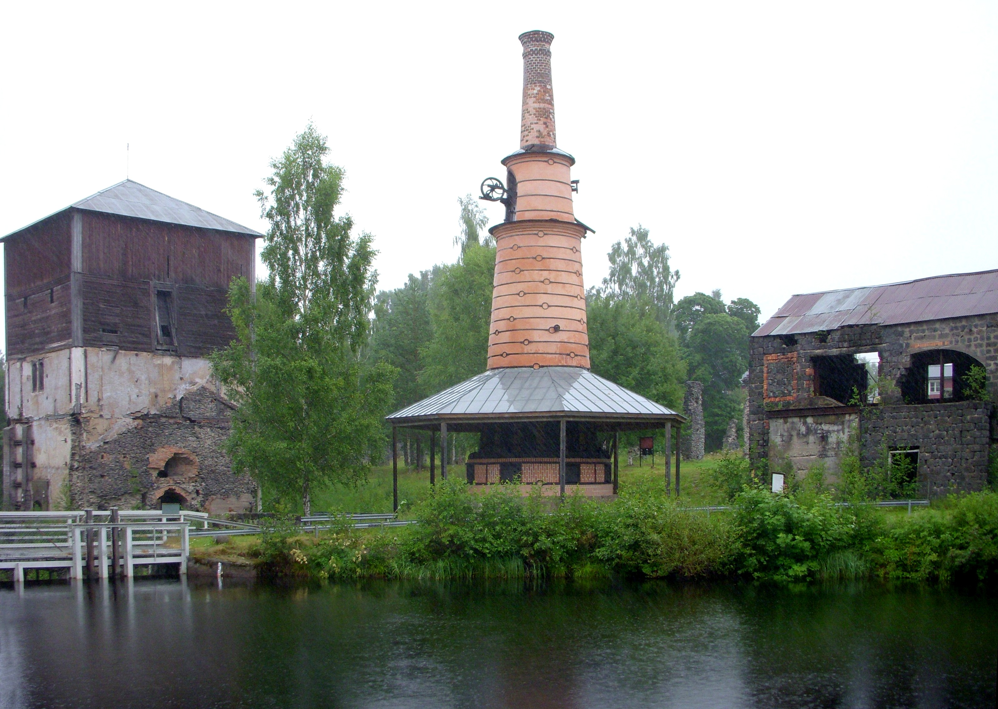 Old iron works of Ulvshyttan, Säter municipality, Sweden